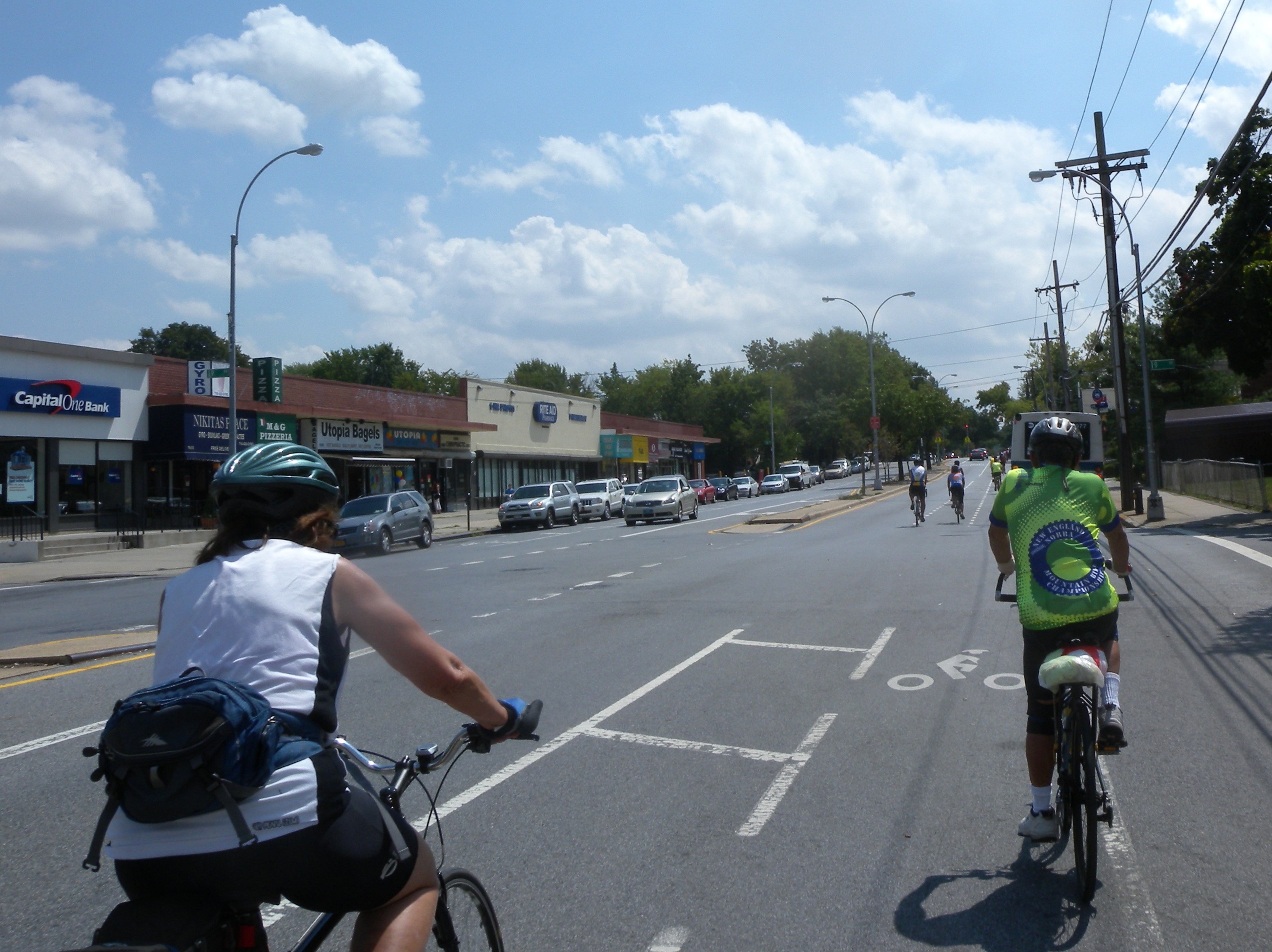 Looking south at a biker gang climbing Utopia Parkway past 19th Avenue on a mostly sunny midday.